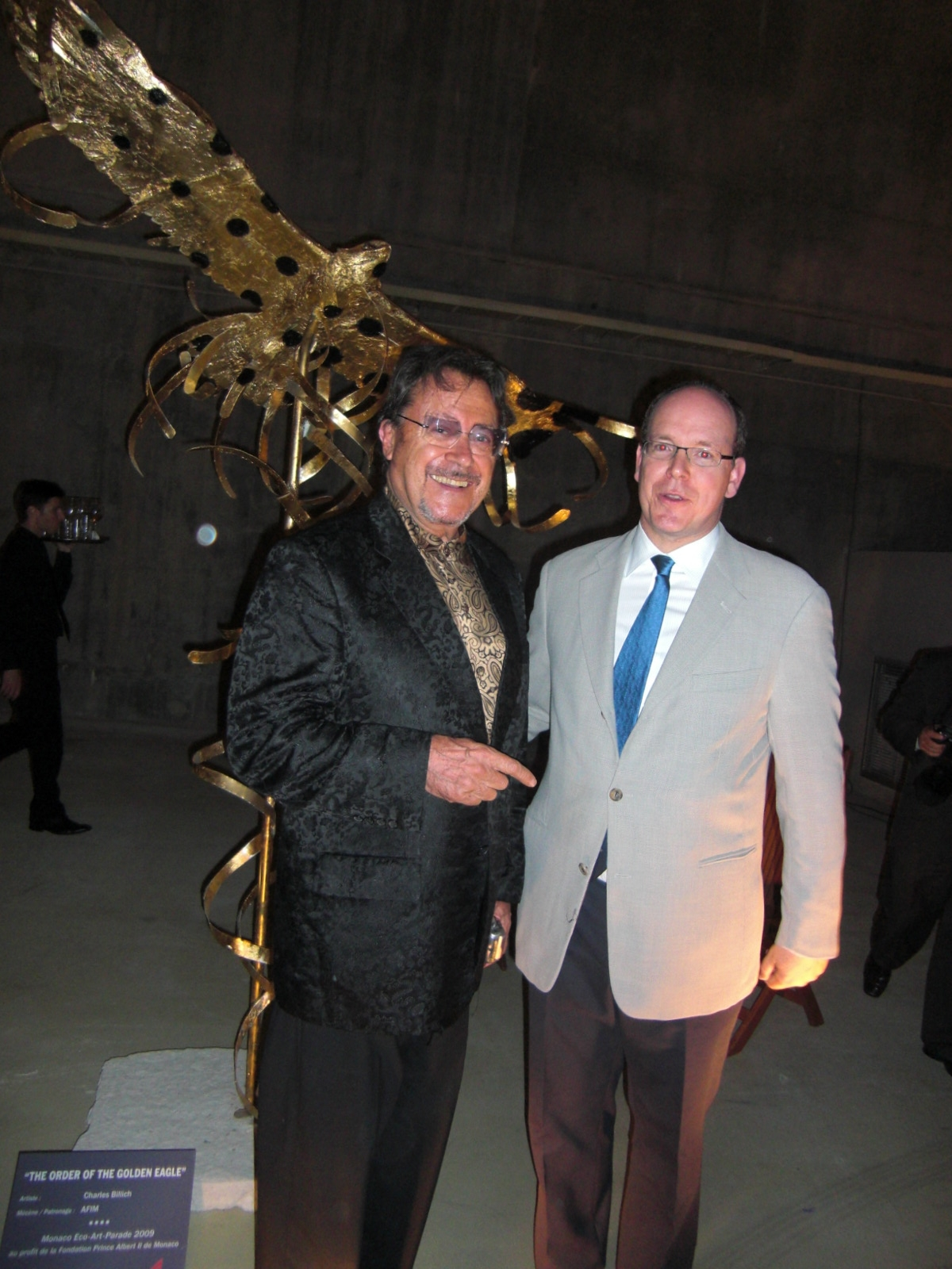 Artist Charles Billich with HSH Prince Albert II of Monaco